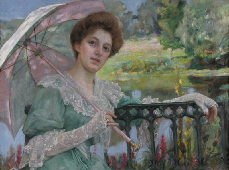 Portrait of Genowefa Wężyk